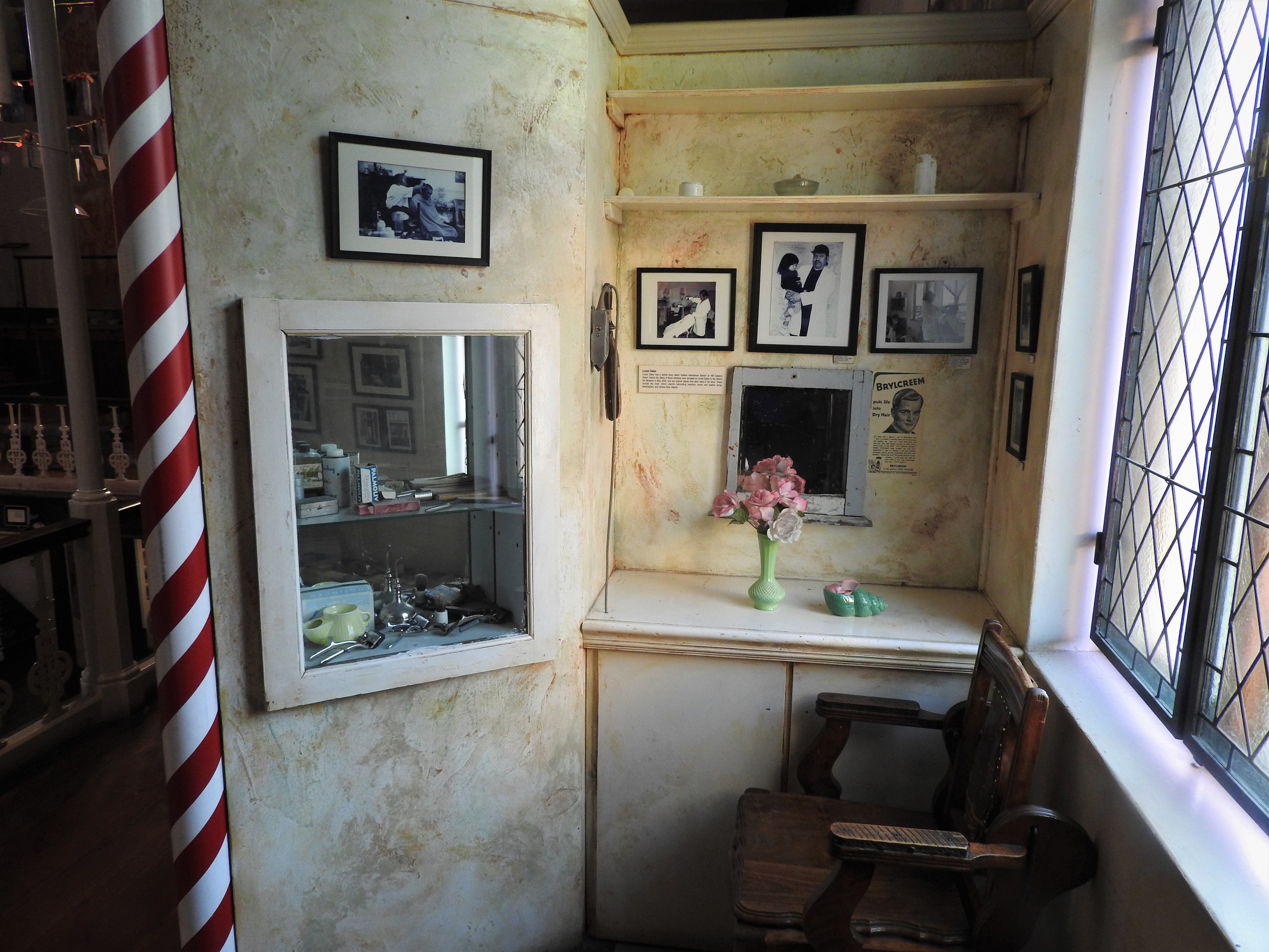 Looking northwest in balcony